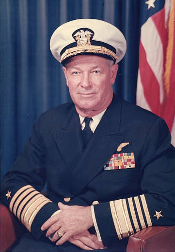 ADM Roy L. Johnson, USN